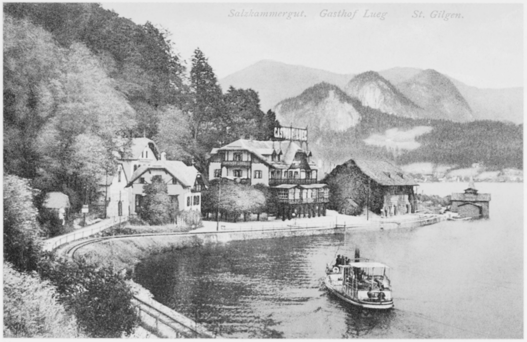 Lueg on the Wolfgangsee with tracks of the Salzkammergut-Lokalbahn narrow gauge railway